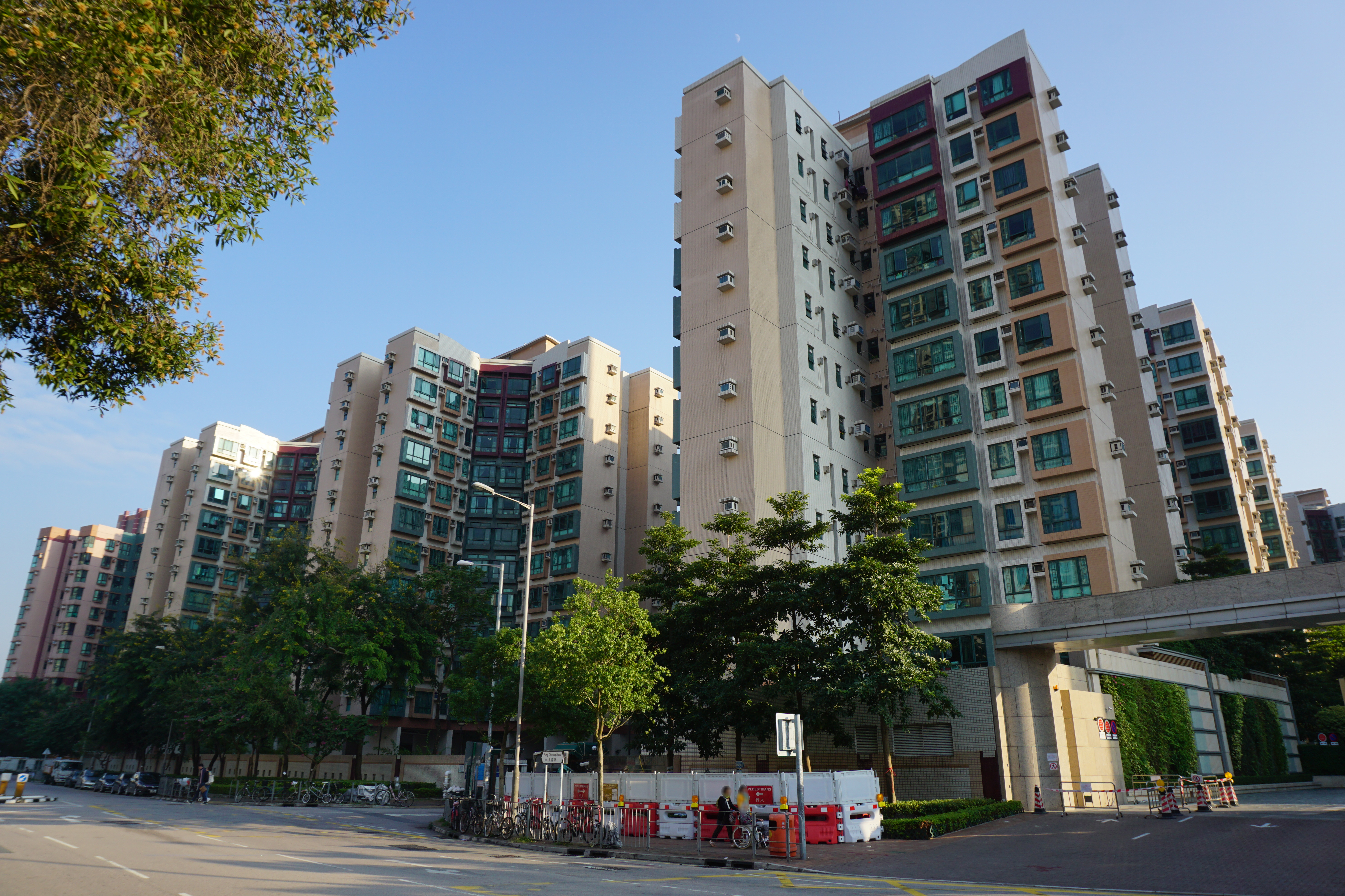 Grand Del Sol in Yuen Long, Hong Kong.